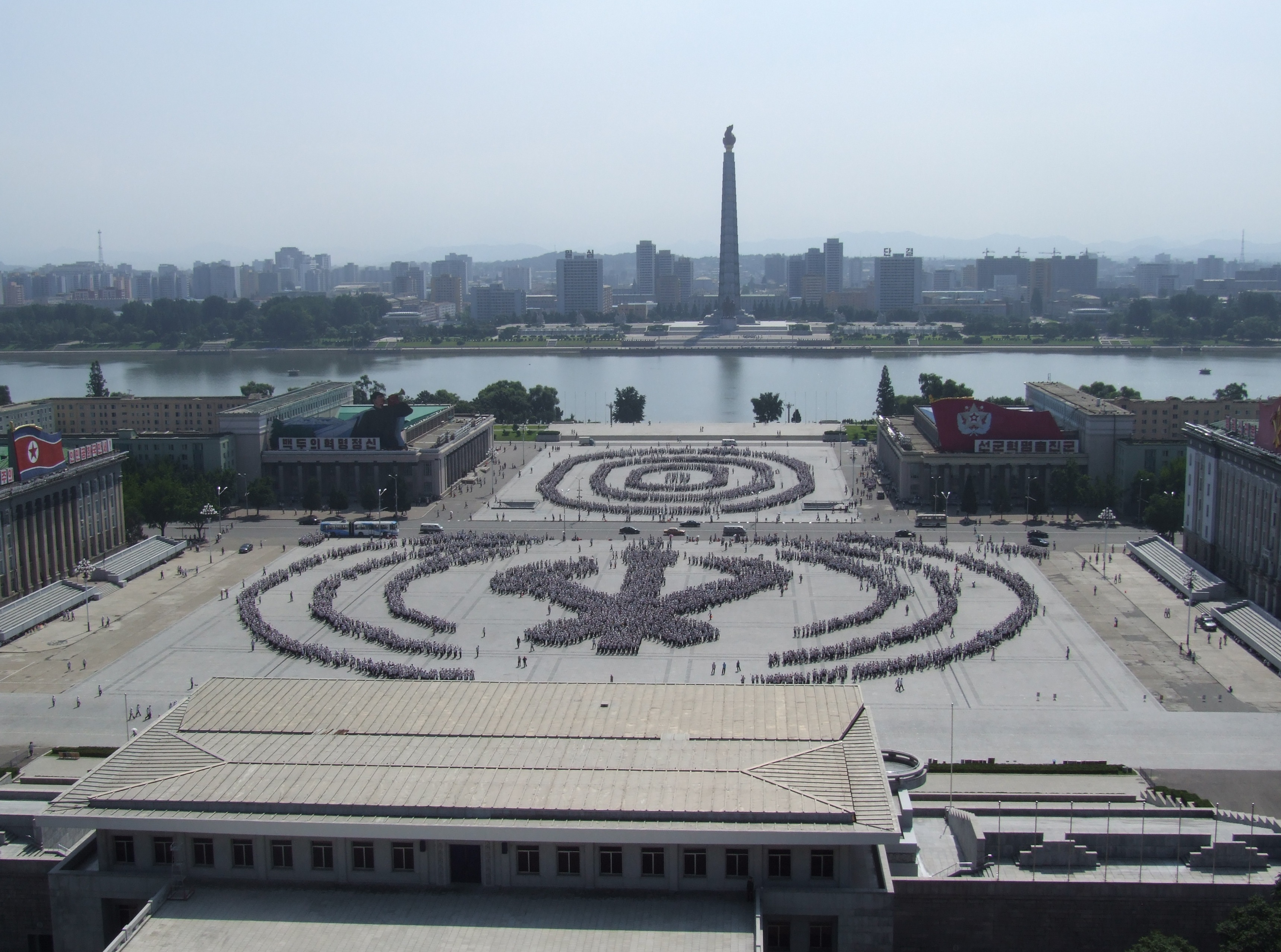 Children practising a torch march on Kim il-sung square in Pyongyang